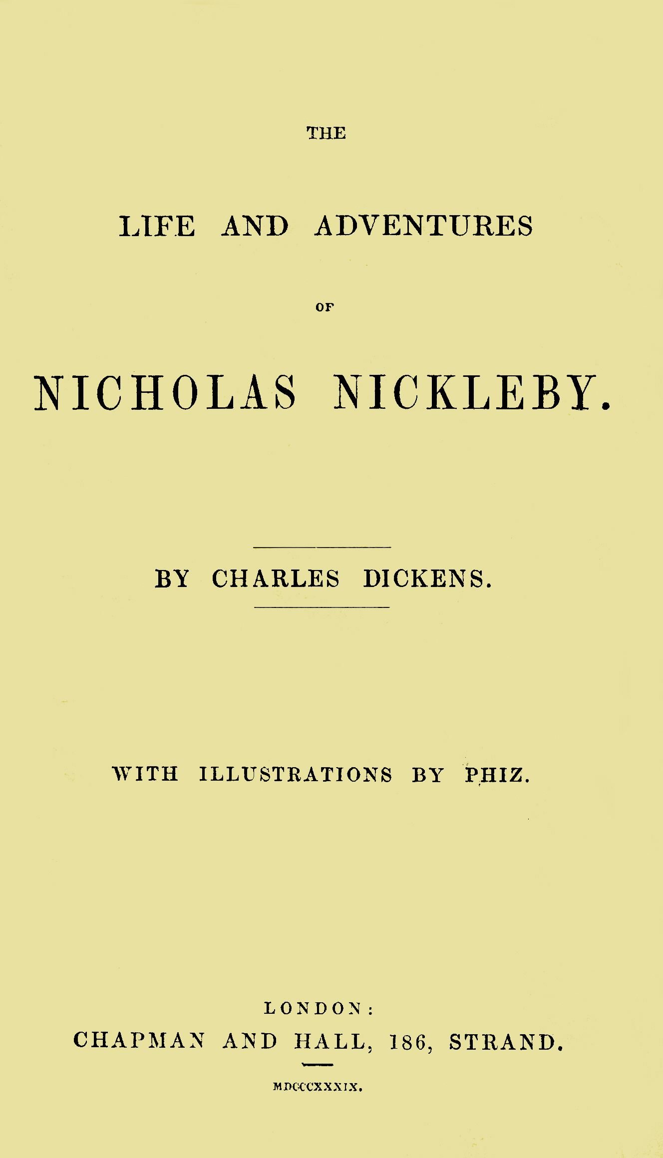 Original title page of Nicholas Nickleby by Charles Dickens